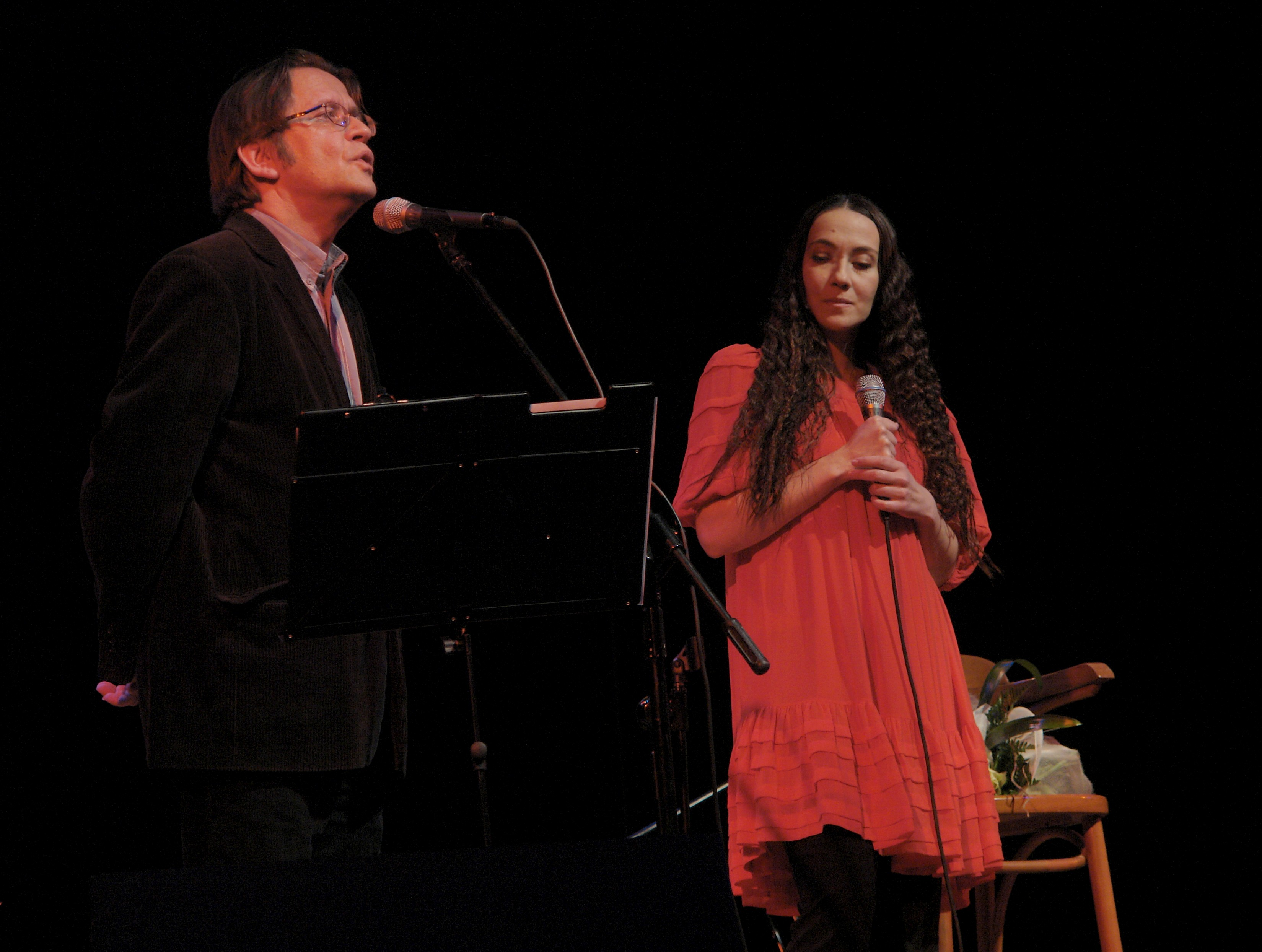 Grzegorz Tomczak and Iwona Loranc, Polish singers at their concert in Zielona Góra